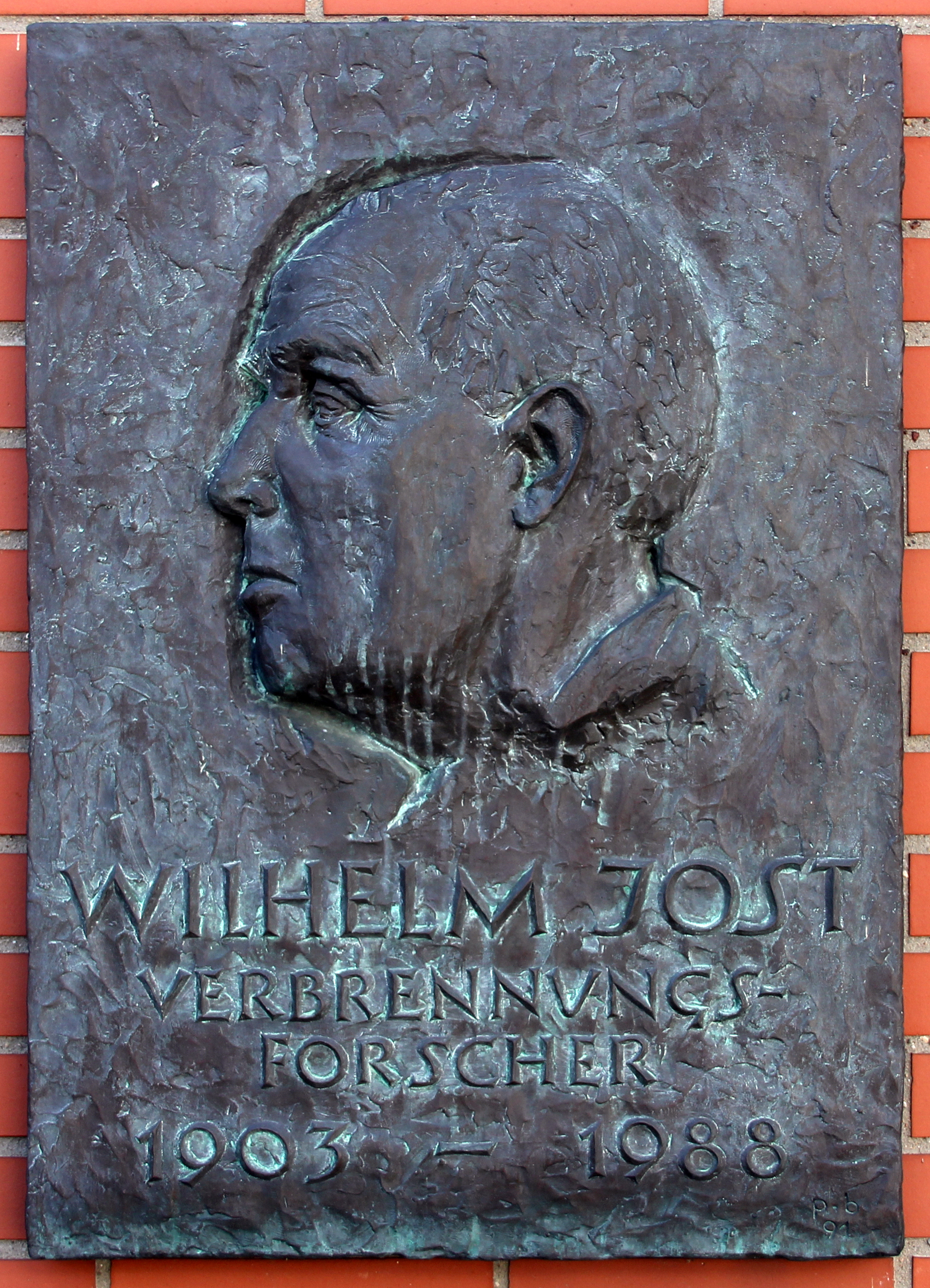 Memorial plaque, Wilhelm Jost, Unter den Eichen 87, Berlin-Lichterfelde, Germany